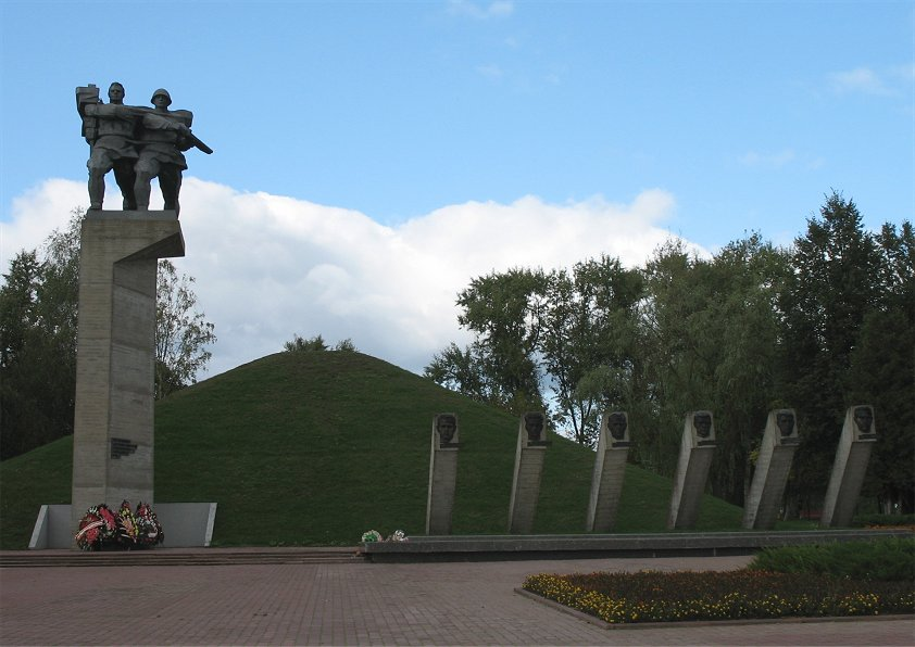 Memorial / Statue of the 1941-1945 war heroes in the village Syčkava Babrujsk region, Belarus.